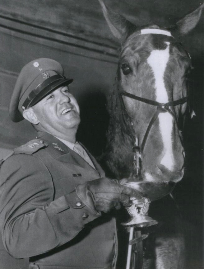 1956 Press Photo Humberto Mariles,Mexican Equestrain Team Chihuahua Horse Show